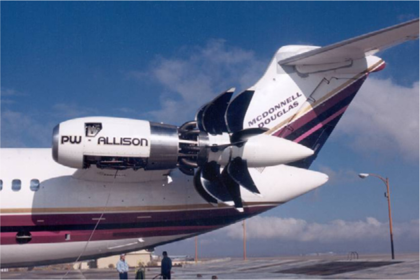 The Pratt & Whitney-Allison 578–DX geared propfan demonstrator engine, installed on an MD-80 testbed aircraft.